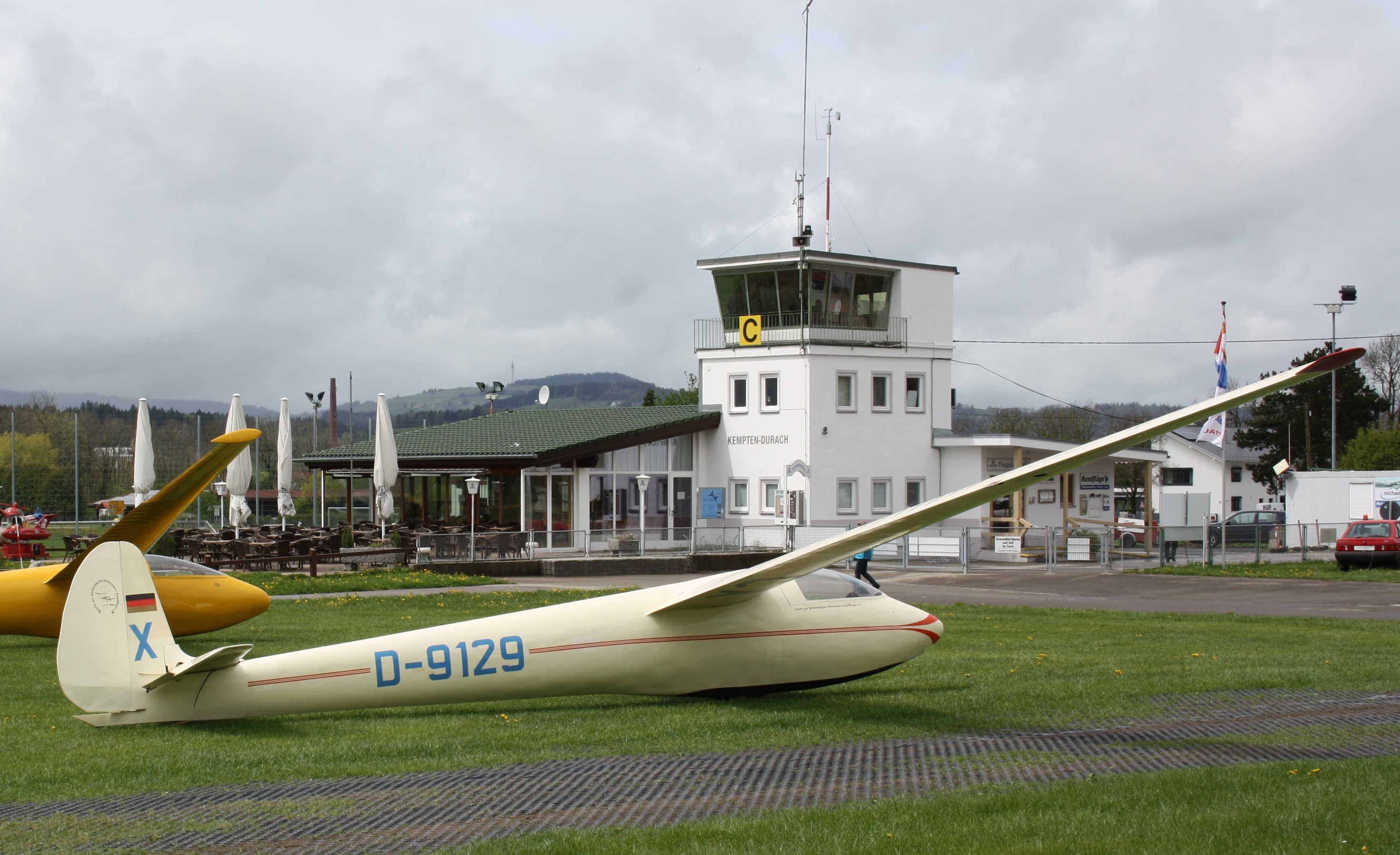 Sailplane Geier II at airfield Kempten-Durach